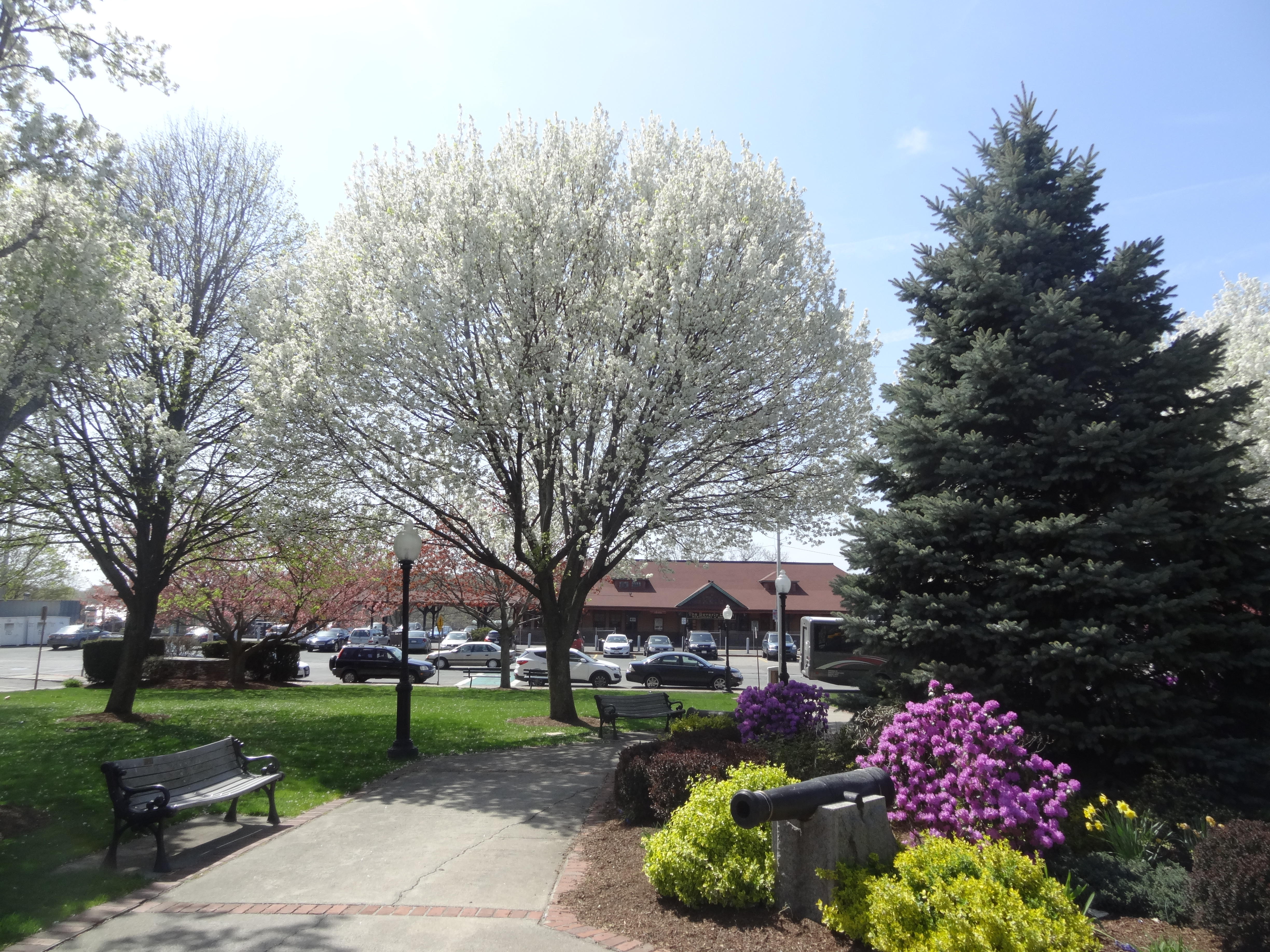 Odell Park (Also known as Veterans Memorial Park) 150 Rantoul Street Beverly, Massachusetts Looking toward the Beverly Depot Between the Post Office on Rantoul Street and the Beverly Depot on Park Street